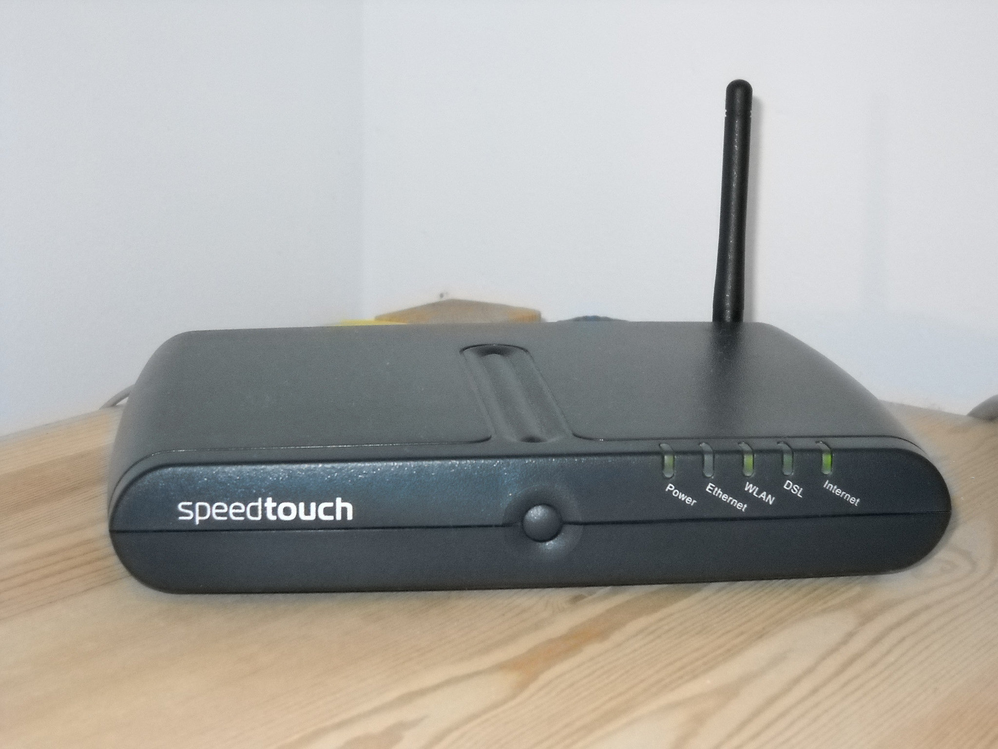 2007 model Thompson Speedtouch 585V6